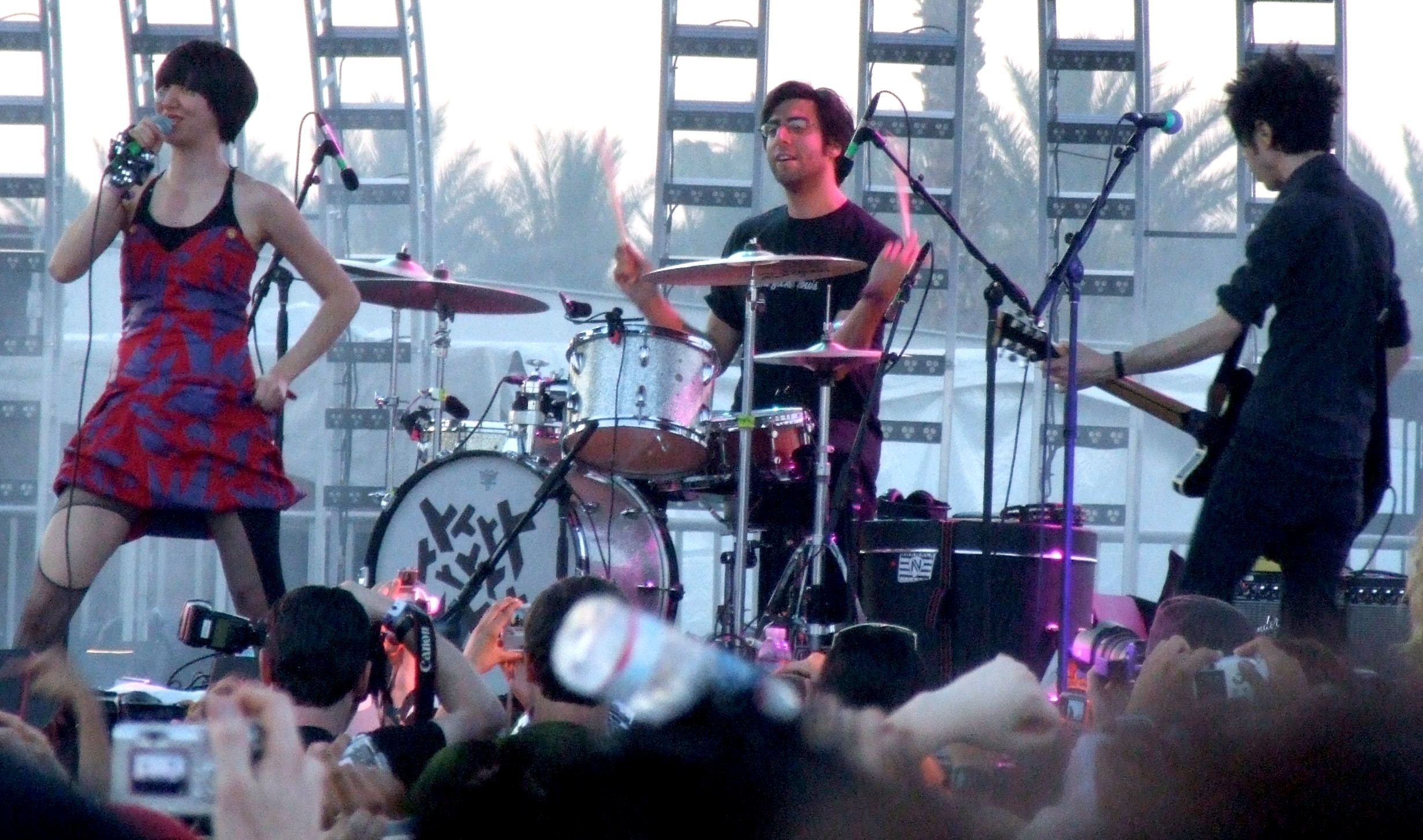 Yeah Yeah Yeahs playing live at Coachella 2006.